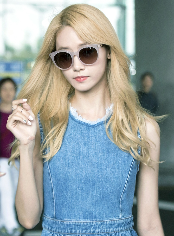 Yoona at Incheon International Airport on June 14, 2015.